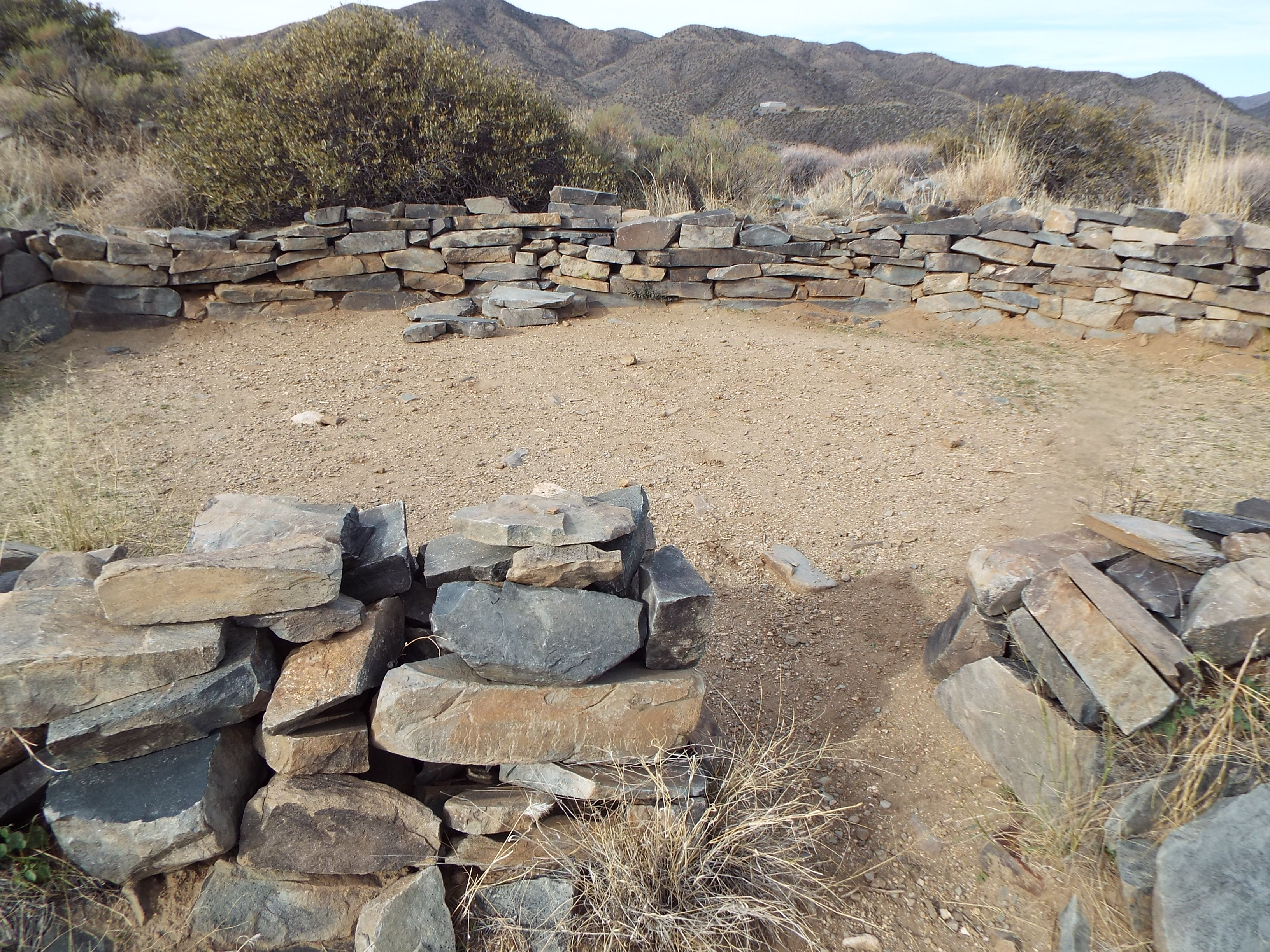 Sears-Kay Ruin Fort Mystery Room. Located atop a desert foothill in the Tonto National Forest on the outskirts of the town of Carefree, Az. The site was listed in the National Register of Historic Places in November 24, 1995.